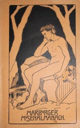 Musenalmanach Marburger Studenten, published by Ernst Thesing (1874–1954) and Wolfgang Lehmus. N. G. Elwert’sche Verlagsbuchhandlung, Marburg 1901, OCLC 162647475, Illustrations (Cover and content) by Otto Arndts (1879–1963).